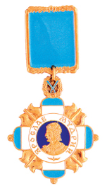 Miniature badge of the Order of Prince Yaroslav the Wise